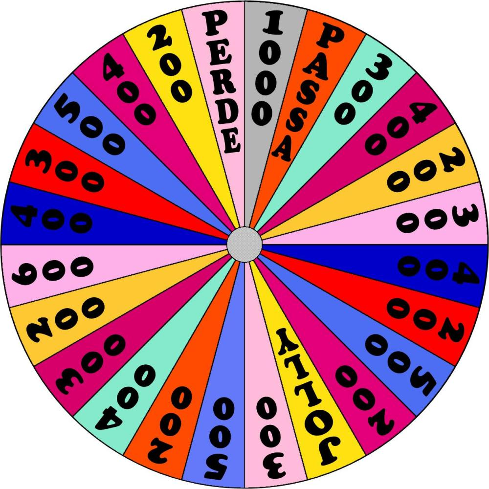 Round one wheel of the Italian version of "Wheel of Fortune" from 1989.